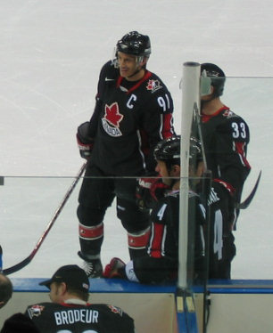 Joe Sakic (#91, left) at the 2006 Olympics with Kris Draper (#33) and Rob Blake (#4)